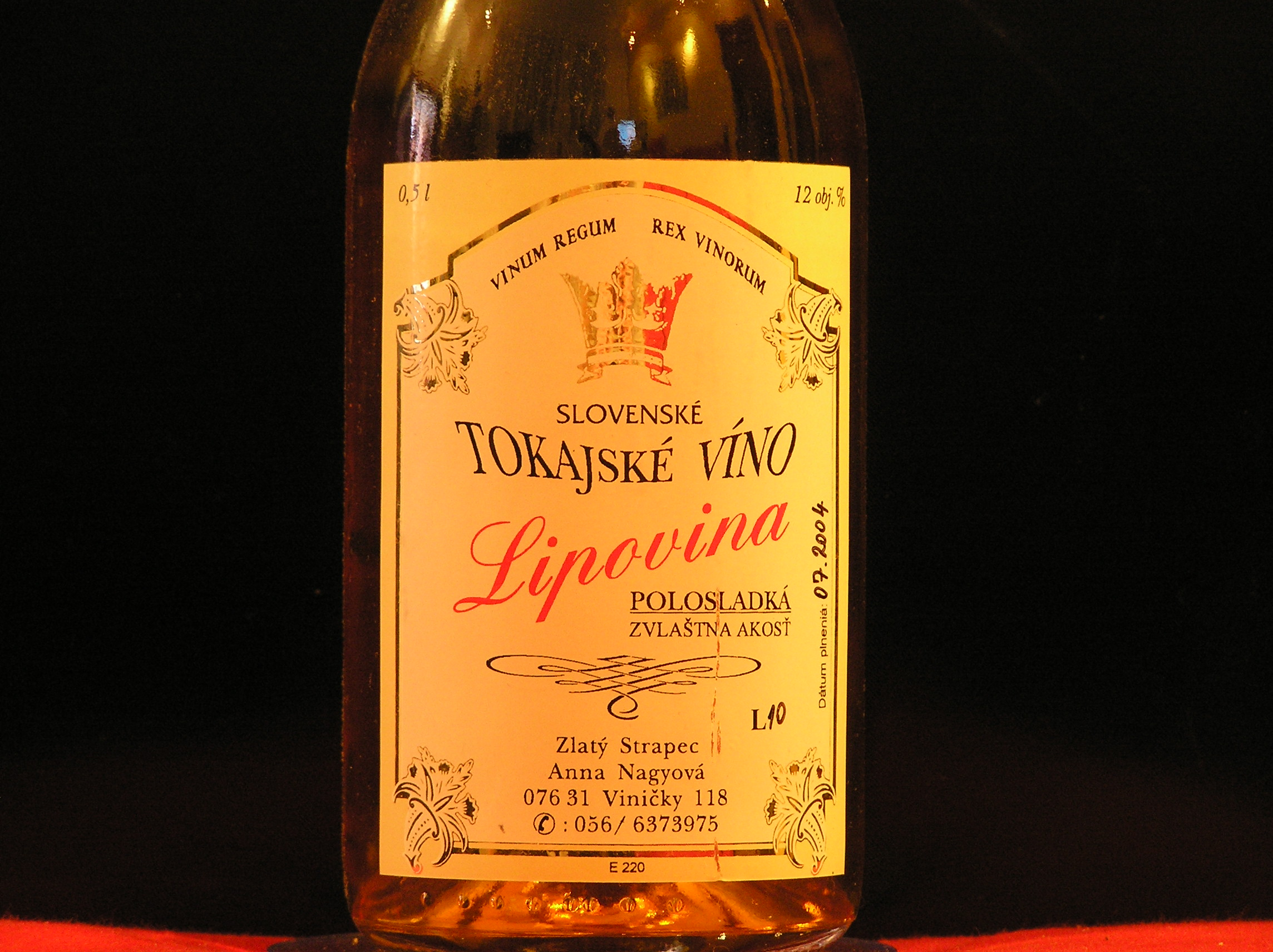 Bottle of Tokaj wine Lipovina. Semi sec. author Legnaw